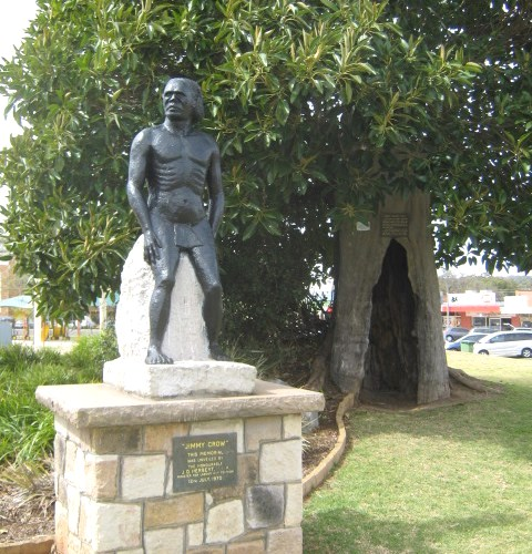 The 2 meter high statue of Jimmy Crow, an aboriginal who lived at Crow's Nest, was Unveiled in Centenary Park, Crow's Nest on July 12th 1969 by the minister for Tourism and Labour. The legendary aboriginal is said to have lived in a big hollow tree.